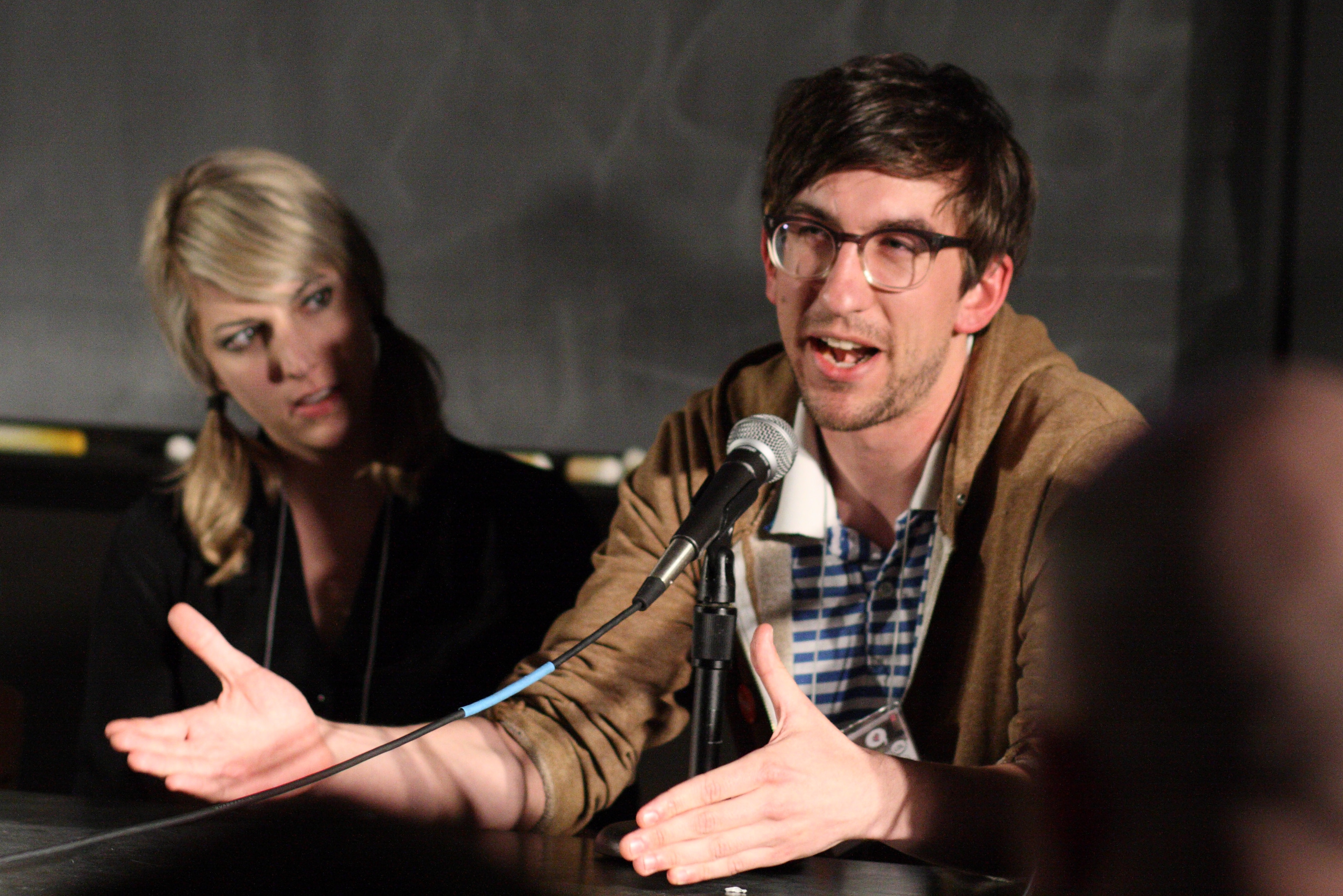 Mark Little (right) and Jessica Amason of This is why you're fat at ROFLCon II